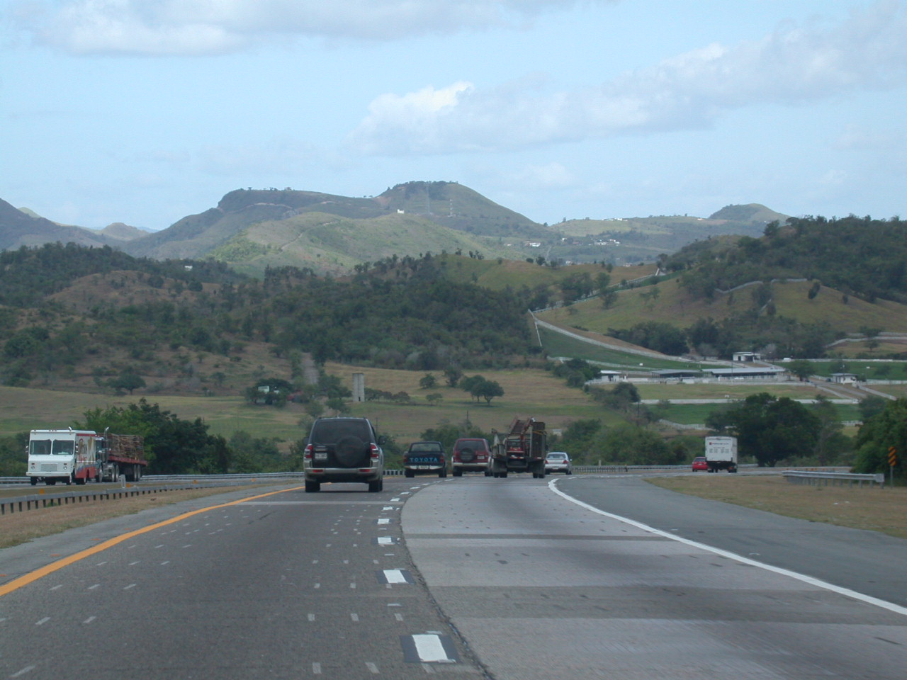 PR-52 highway in Puerto Rico, en route from Juana Diaz to Santa Isabel, eastbound.